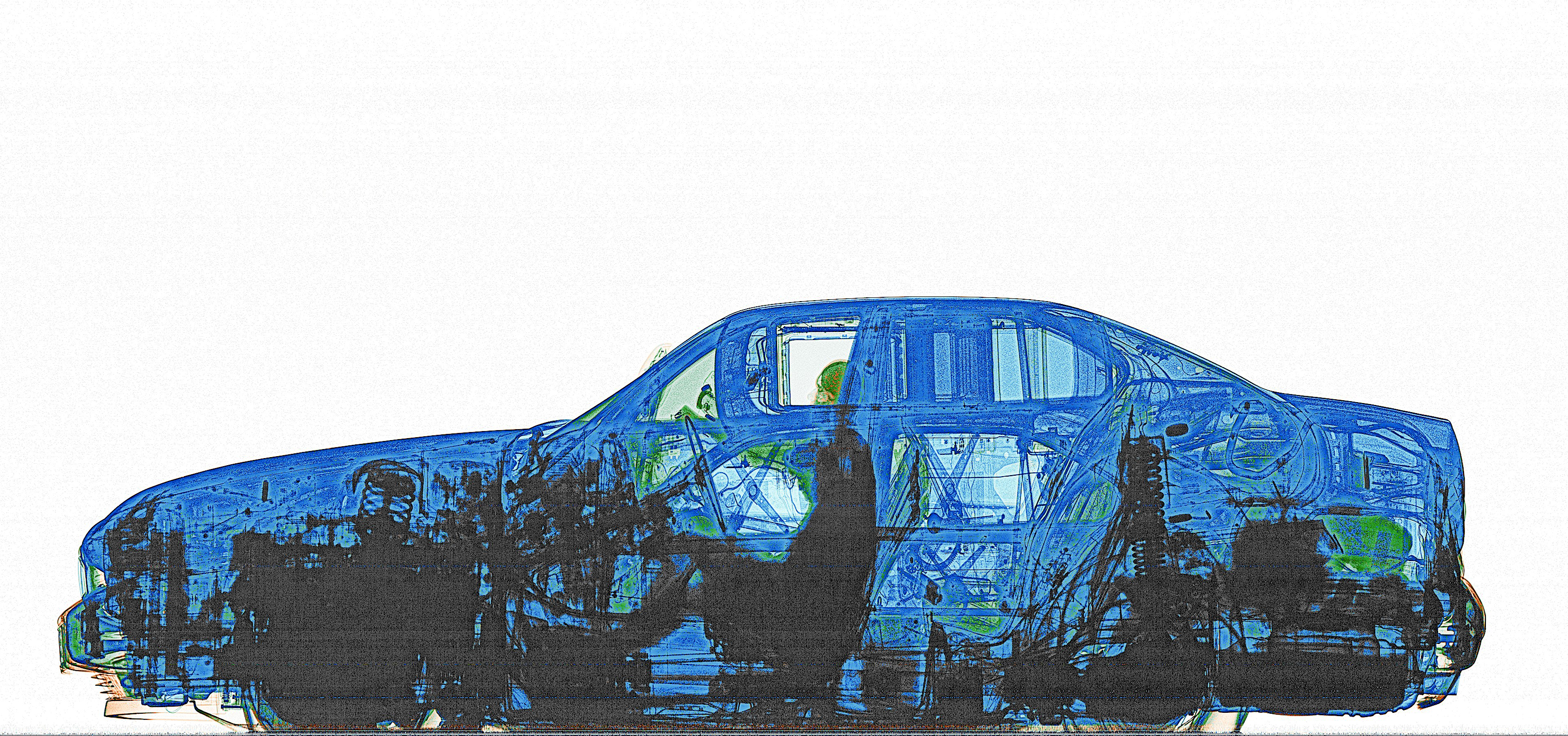 X-ray image of BMW E34